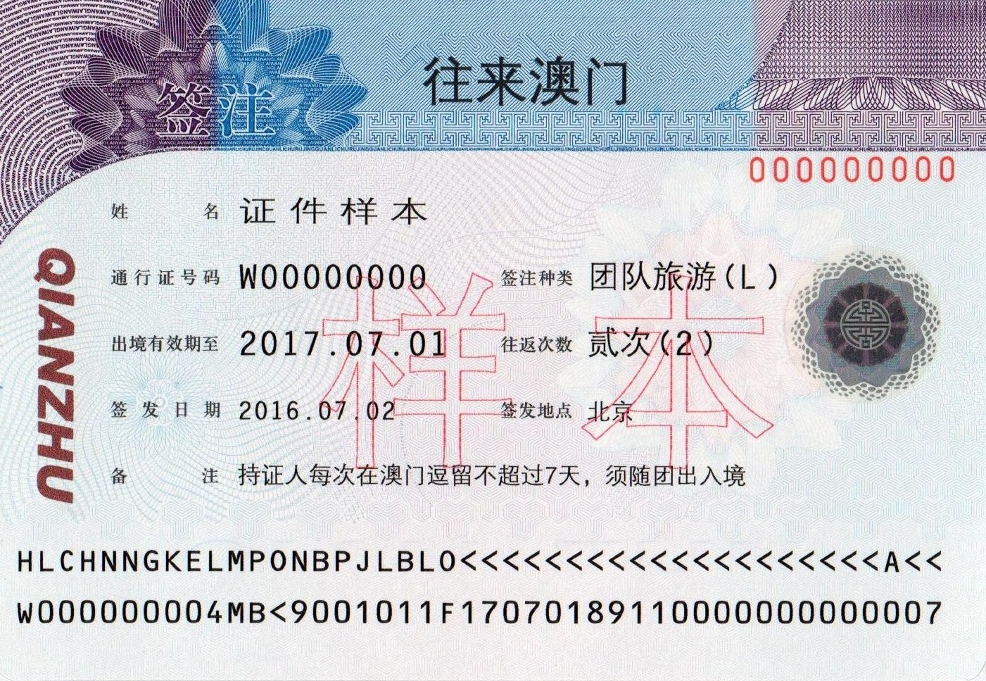 A sample of sticker-style endorsement of Two-way Permit for Macau visit, issued in 2016. 中文（中国大陆）: 2016年签发的港澳通行证往来澳门贴纸式签注样本